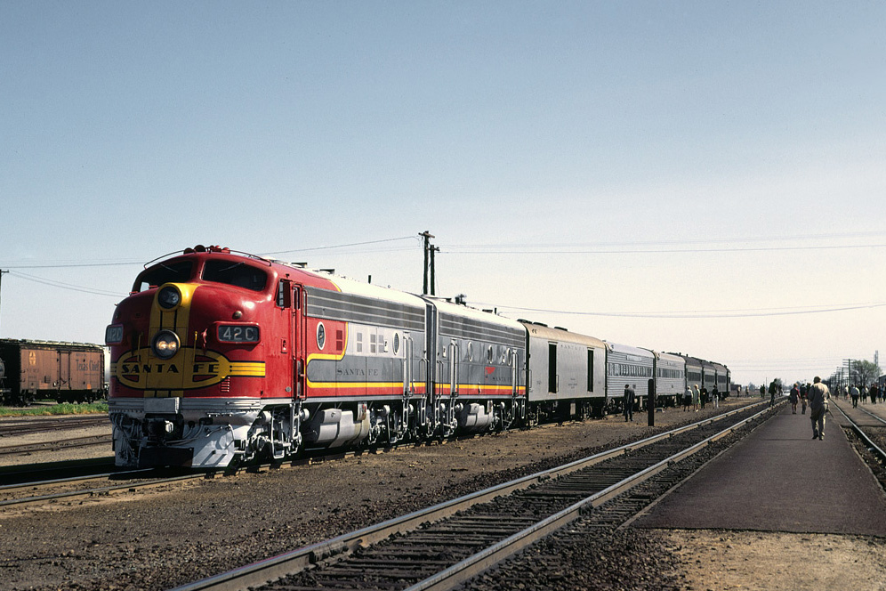 Atchison, Topeka and Santa Fe Railway locomotive no. 42C at Riverbank, California.Additional description: In 1968, a very successful "Last Run of a PA" was operated by Pacific Locomotive Association from Richmond to Stockton. The following year, as ATSF still had stored PA's in Barstow they decided to run the trip again and, if a PA could not be supplied, an E8 would be the motive power. The morning of the excursion niether a PA or E8 was available and Santa Fe supplied an F7A & B unit. This time the trip was to go to Riverbank. Prior to departure, PLA offered refunds to those who requested them. In this photo, the plain old F7 is leading the excursion train at Riverbank after it had been wyed and ready to head back to Richmond. You might notice the "Route of the Texas Chief" boxcar on the far left.[1]